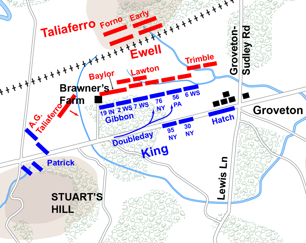 Map of the Second Battle of Bull Run of the American Civil War